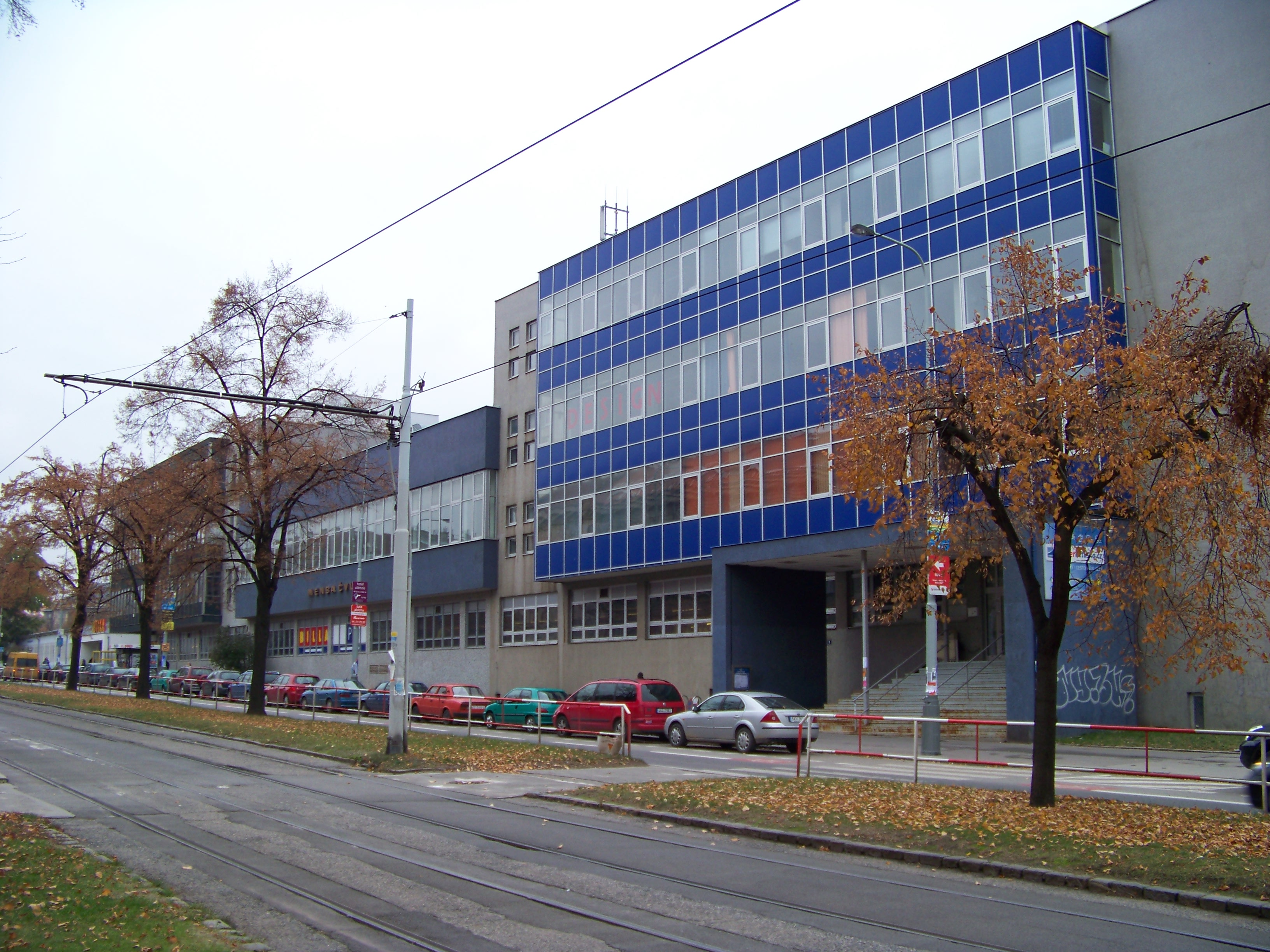 Dejvice, Prague, the Czech Republic. Jugoslávských partyzánů Street, a student's hall. - Google Maps - Google Earth